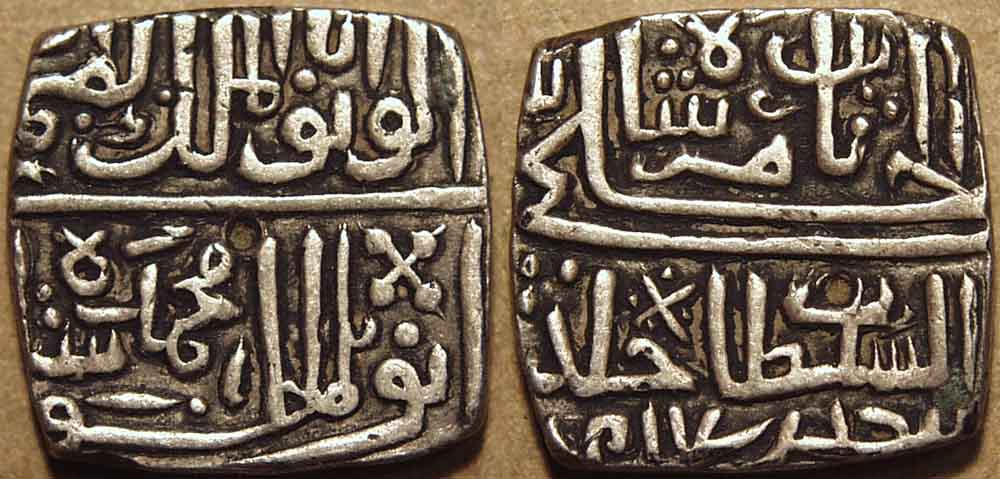 Silver half tanka of Muhammad Shah II (1511-1516) dated (AH) 917 (= 1511-1512 CE)